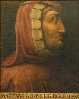 Painting of Martinus Gosia